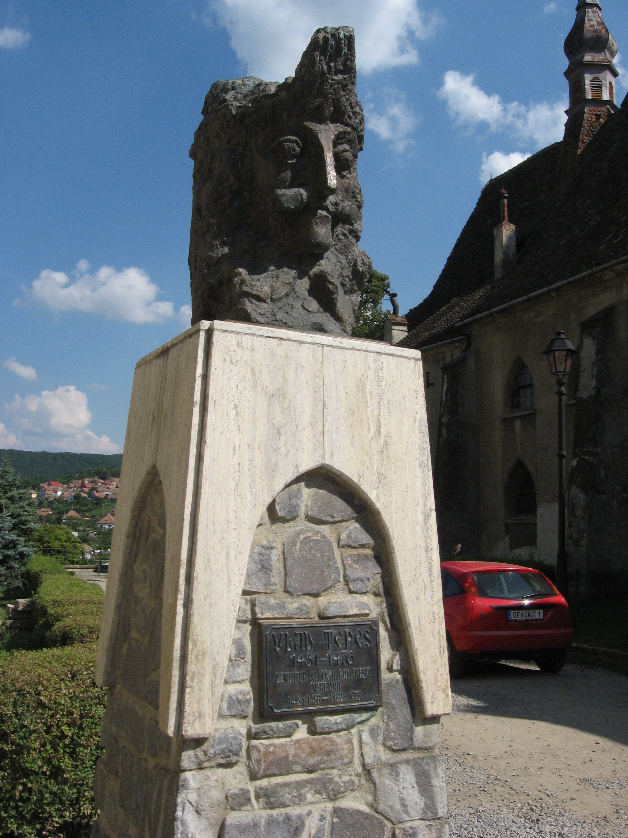 The statue of Vlad Tepes in his birthplace, Sighisoara.